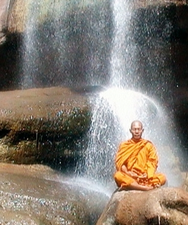 Buddhist monk in Phu Kradueng Nationalpark, Tat Hong Waterfall, Thailand, Loei ProvinceLocation: Phu Kradueng Nationalpark Thailand.